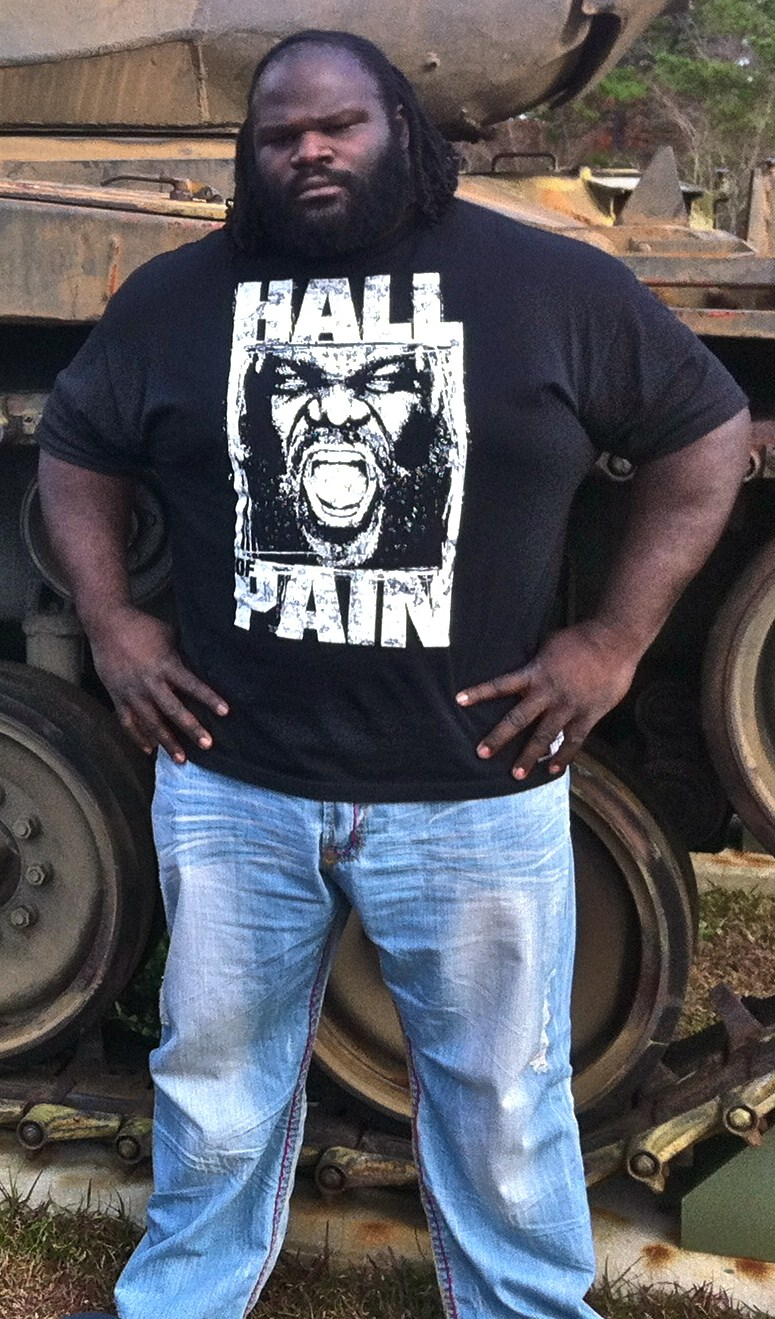 Mark Henry visits the North Carolina National Guard's Fayetteville armory on December 10, 2011.